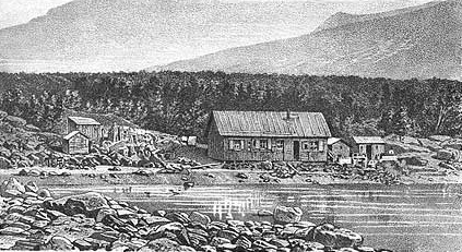 View of buildings associated with the French 1874 Transit of Venus expedition to Campbell Island, New Zealand.